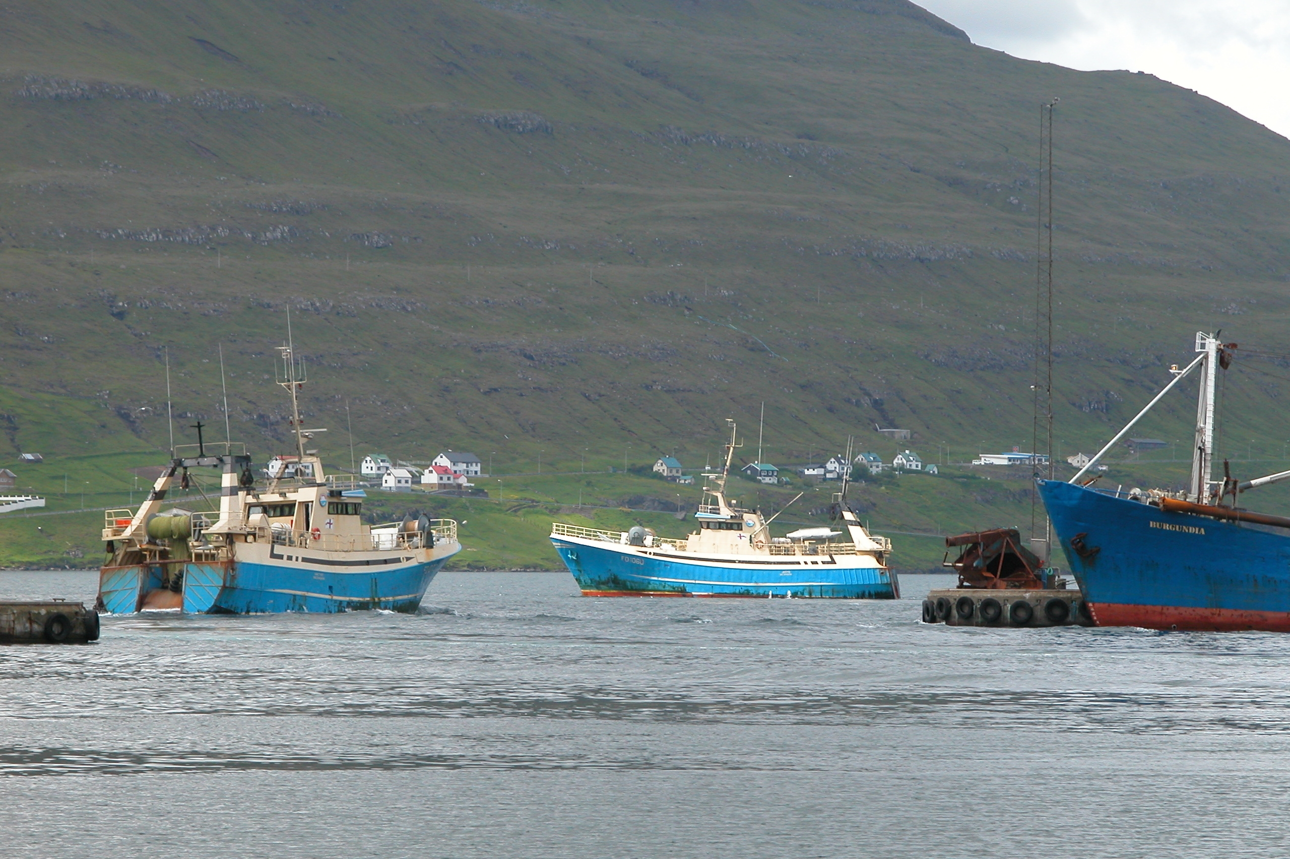 Vessels in the Harbour of Runavík at the Skálafjørður in Eysturoy, Faroe Islands